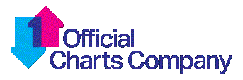 Logo of The Official UK Charts